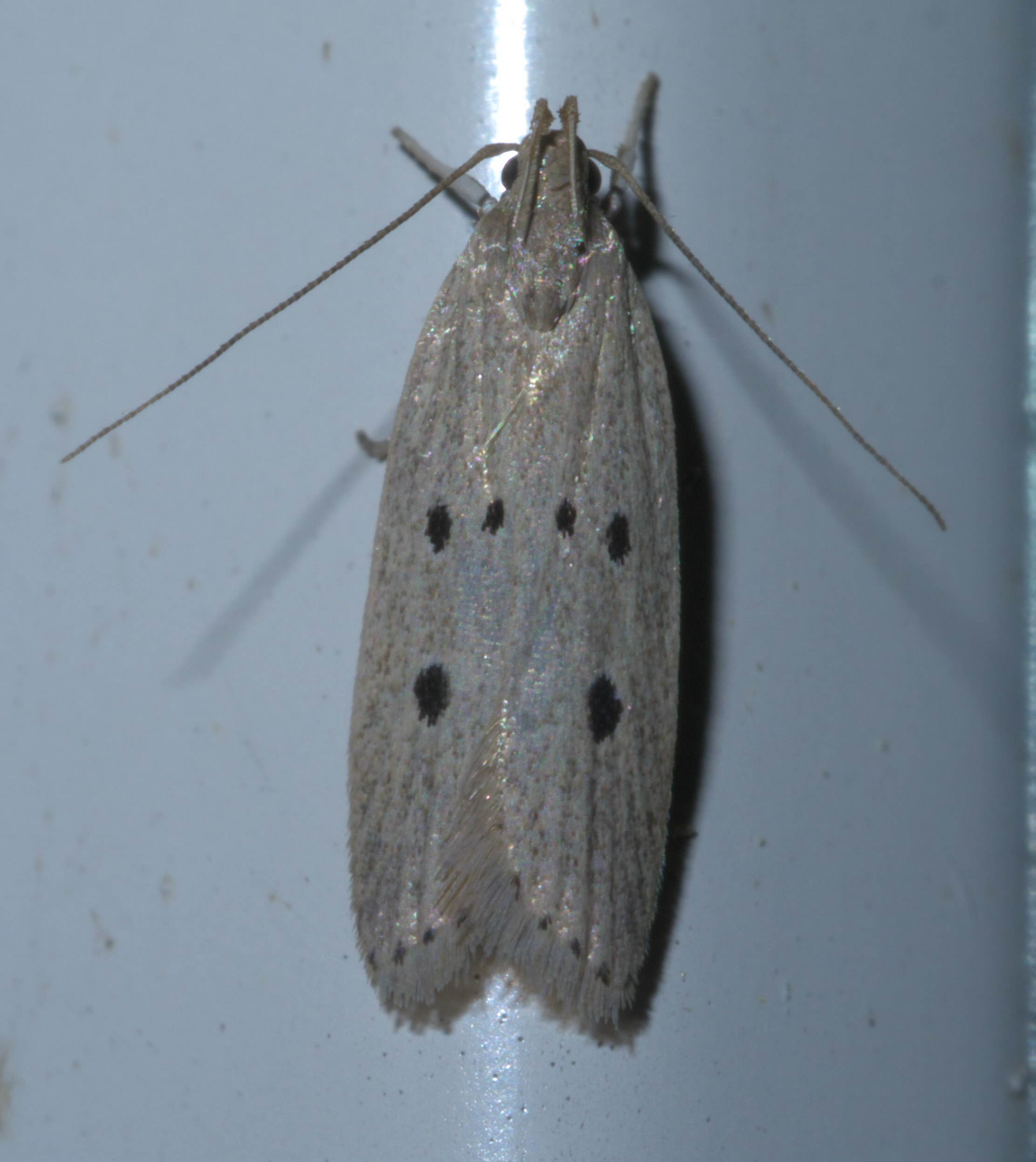 Helcystogramma melanocarpa, Hodges #2269, ID Confidence: 93